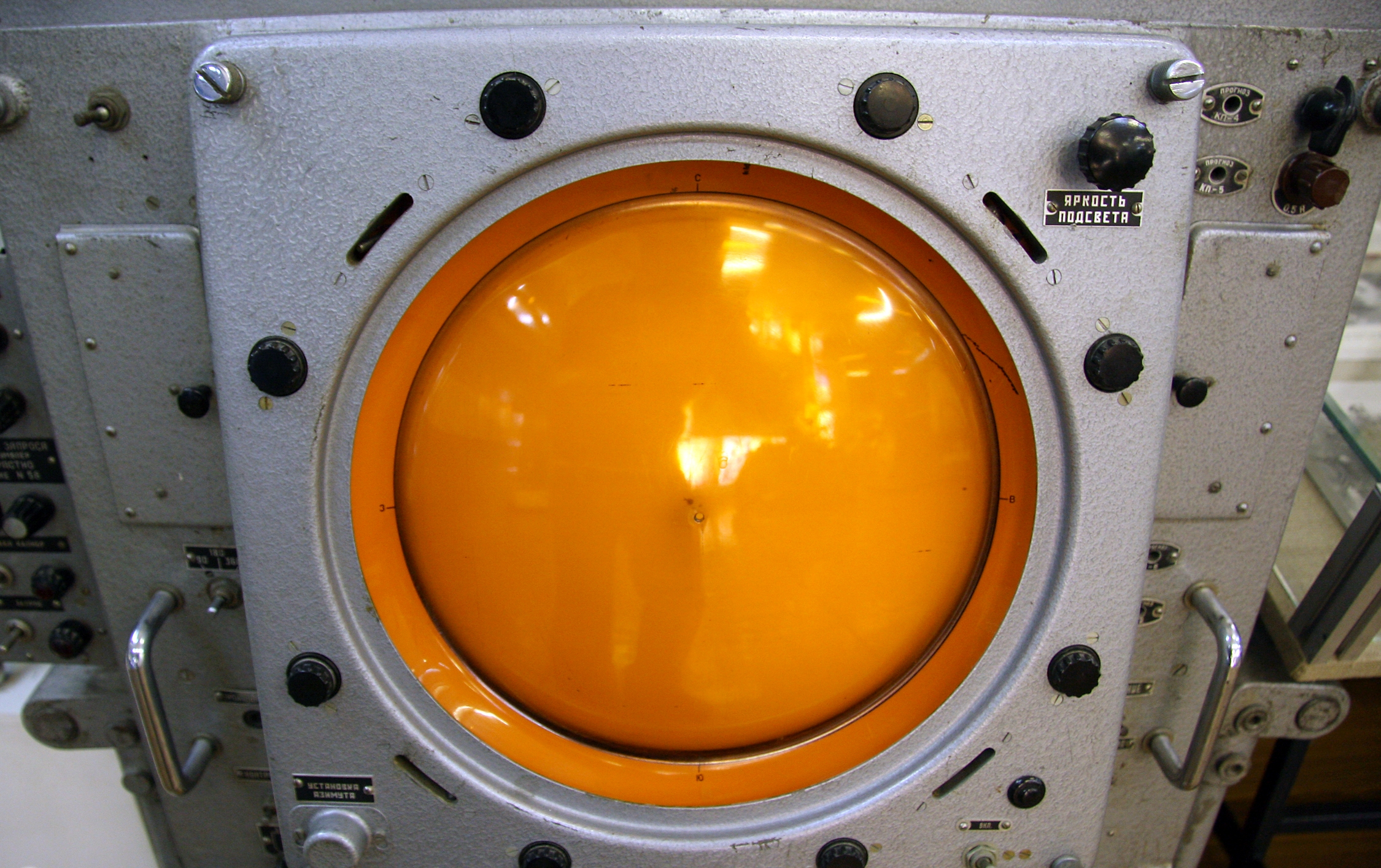 Air Defense History Museum in Zarya in Moscow Oblast.